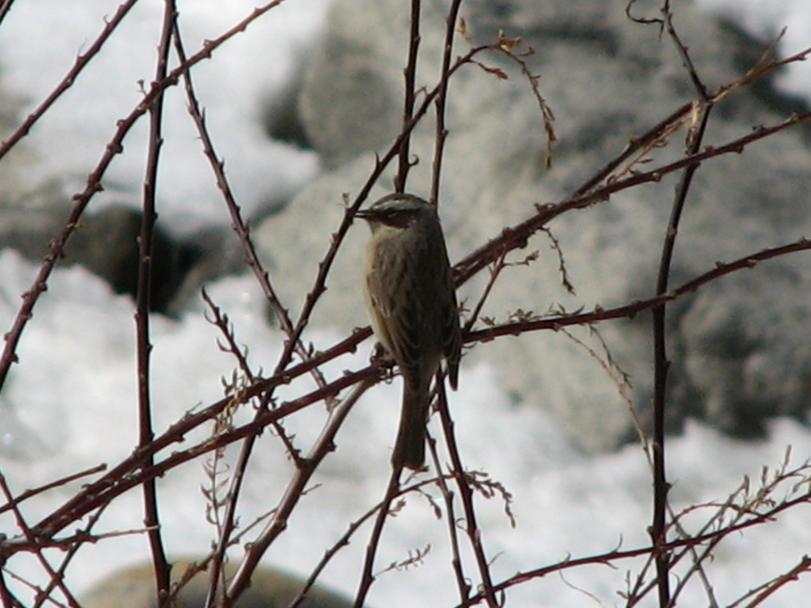 Prunella fulvescens in coolest place